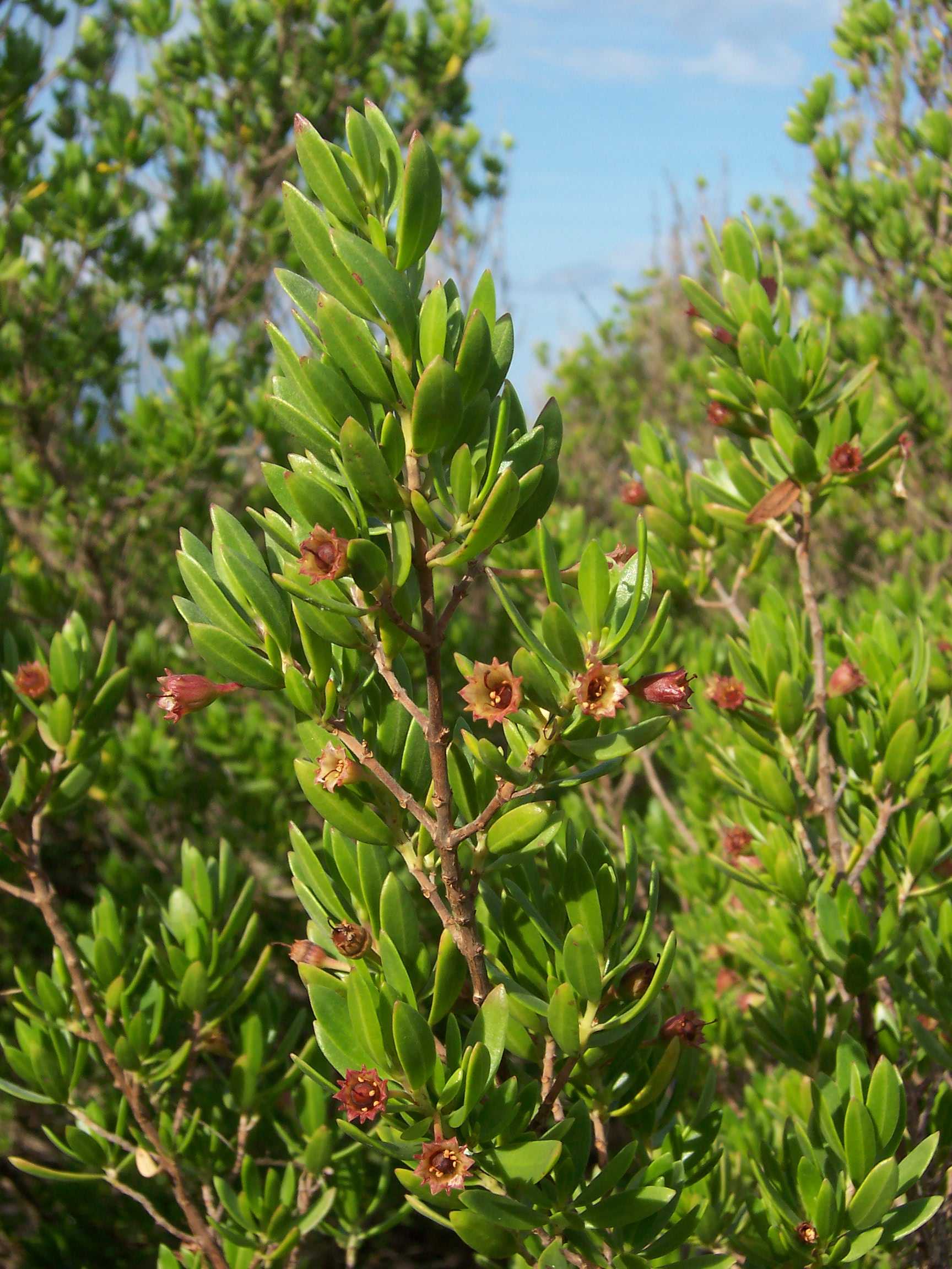 twigs of Pemphis acidula (Lythraceae) with fading flowers on the shore of Réunion island (at Vincendo, commune of Saint-Joseph)